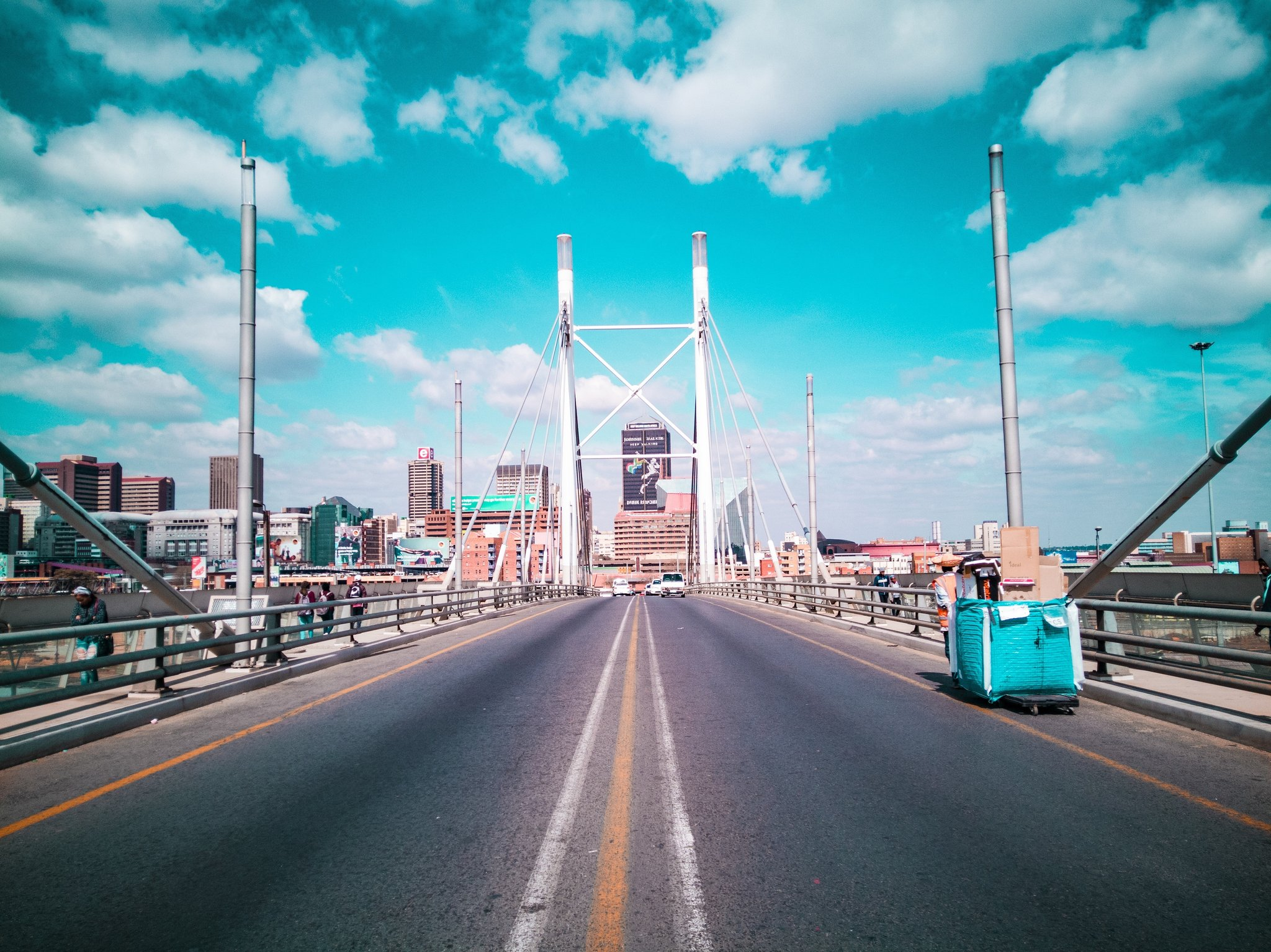 This is an image with the theme "Play" from: South Africa